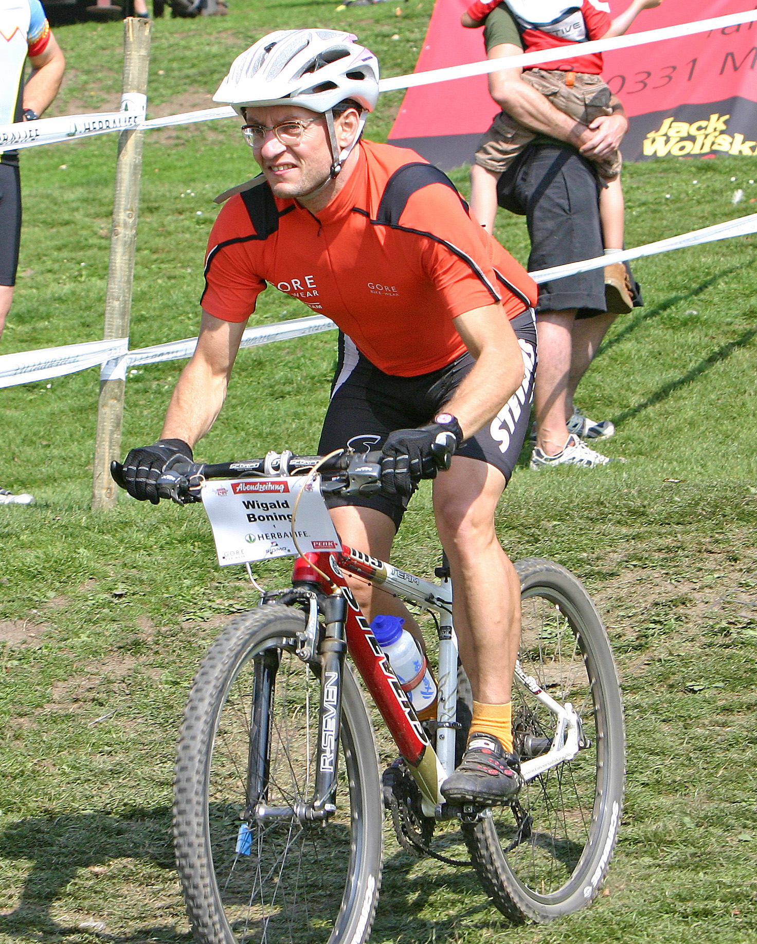 Wigald Boning 2006 at Munich Olympiapark